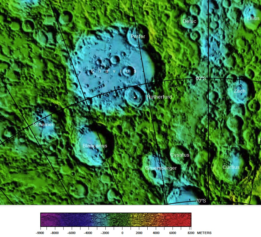 Part of the USGS near side lunar chart